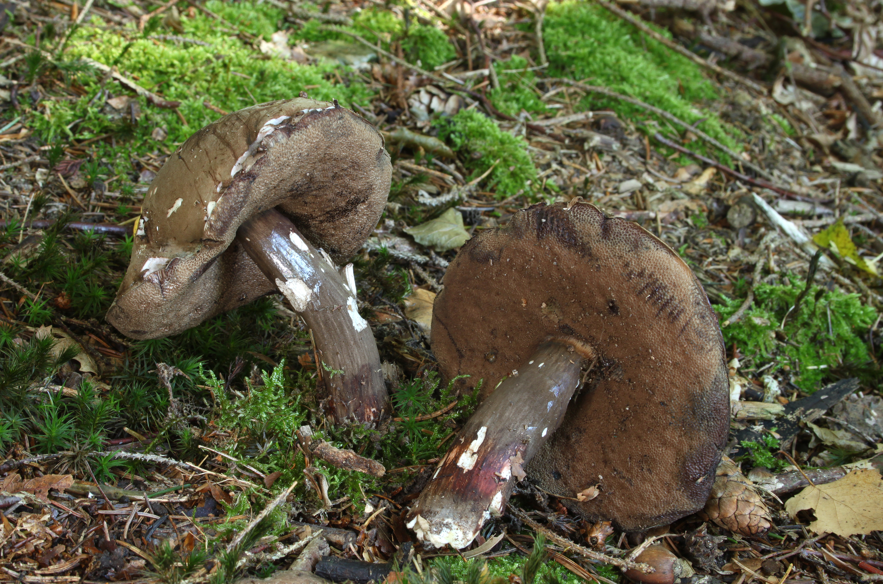 Dusky Bolete Porphyrellus porphyrosporus Syn. Porphyrellus pseudoscaber, Family: Boletaceae, Location: Germany, Biberach